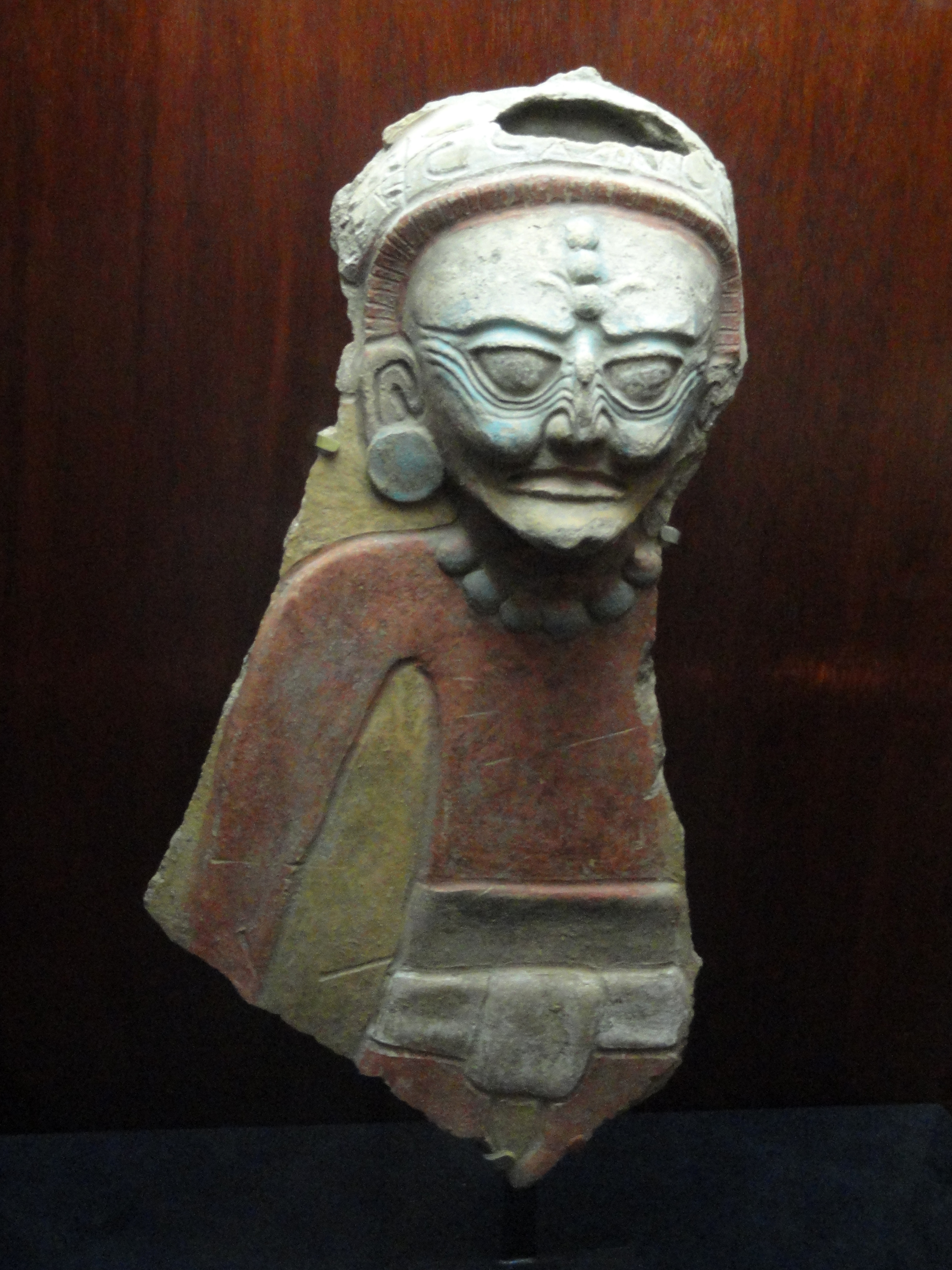 Exhibit in the Houston Museum of Natural Science, Houston, Texas, USA.